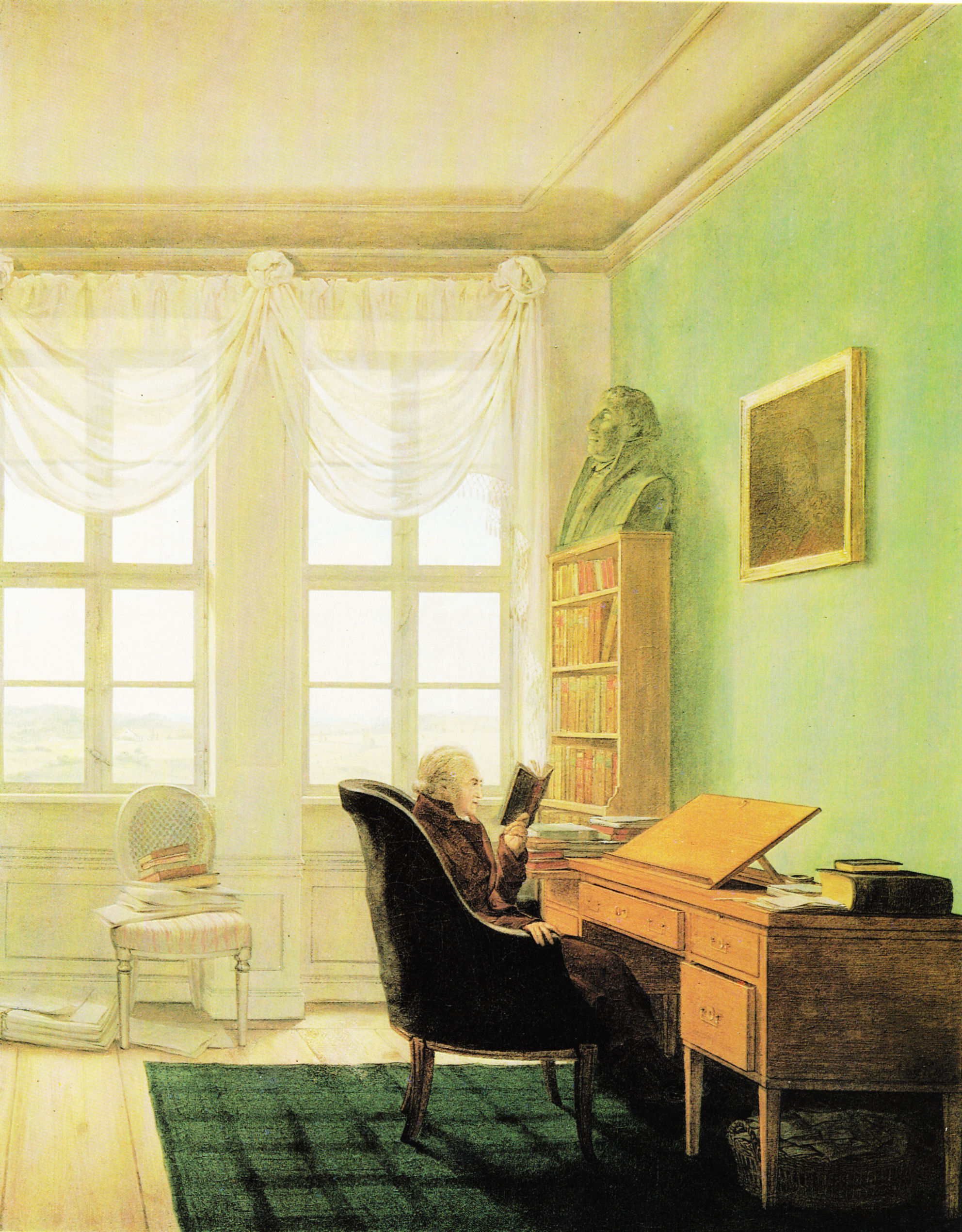 Franz Volkmar Reinhard in his study, reading.